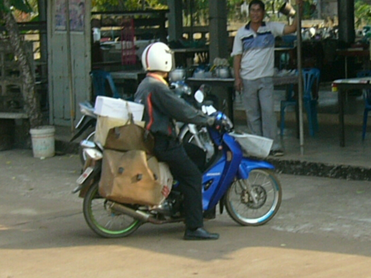 Post of Thailand - parcel and mail delivery by motorcycle, seen in Na Wa, Thailand.